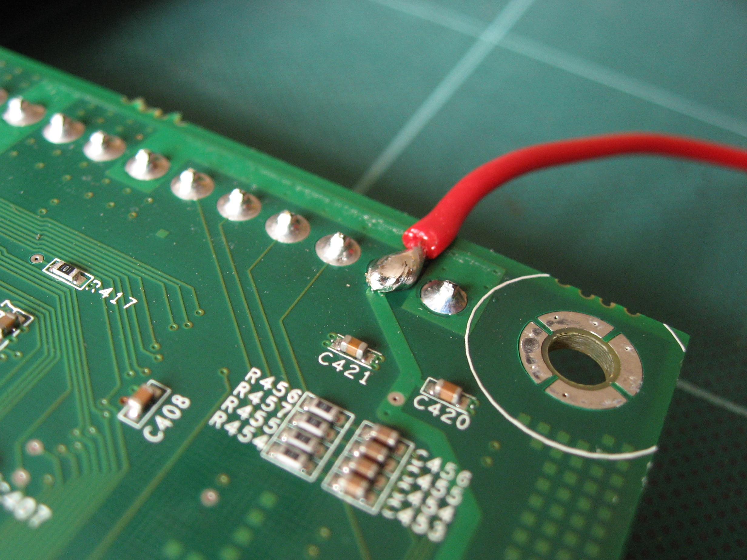 A photograph of a soldered joint used to attach a wire to the leg of a component on the rear of a printed circuit board.